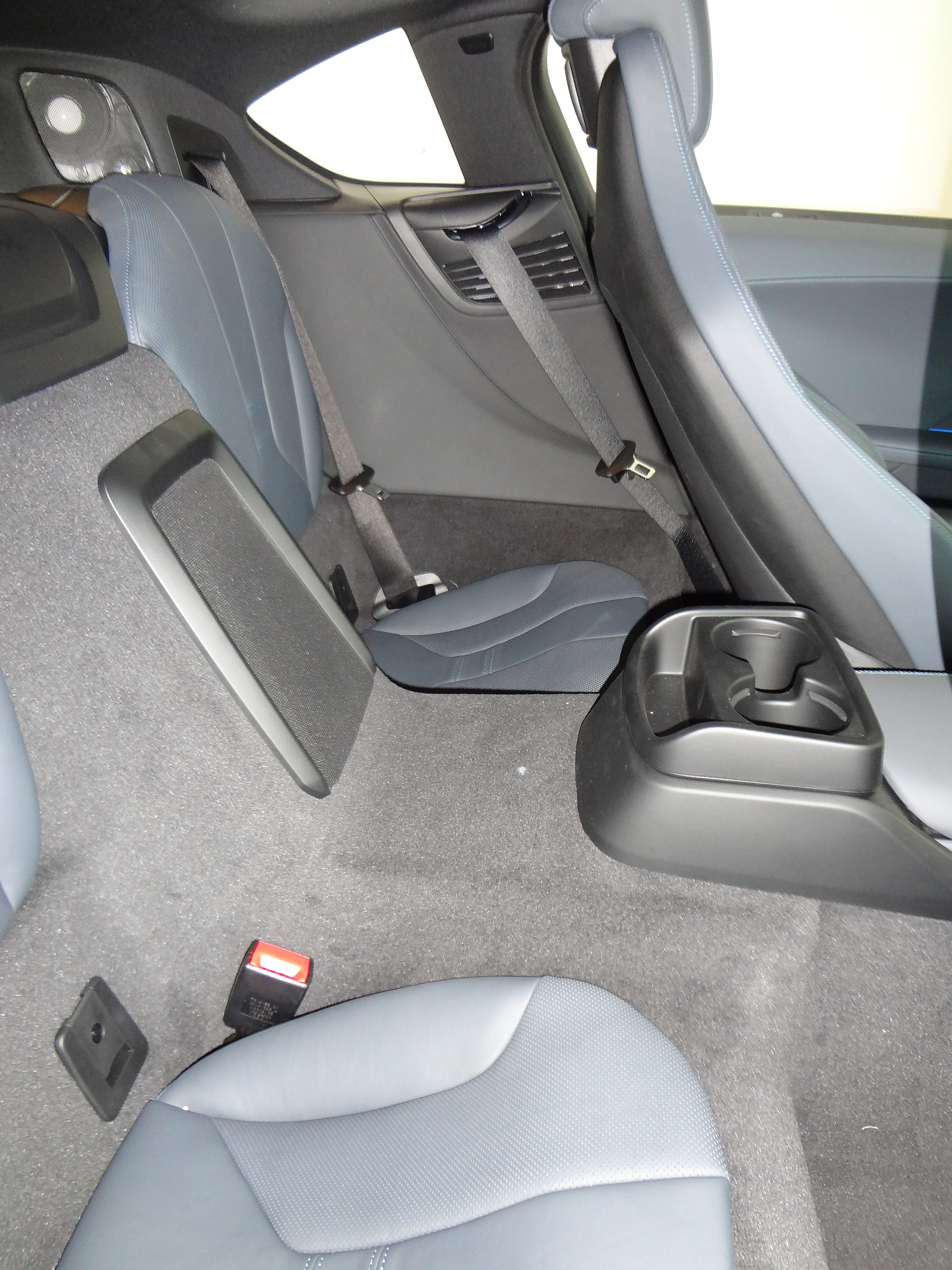 (BMW i8) brand new,Madrid, August 2016, Photography by David Adam Kess